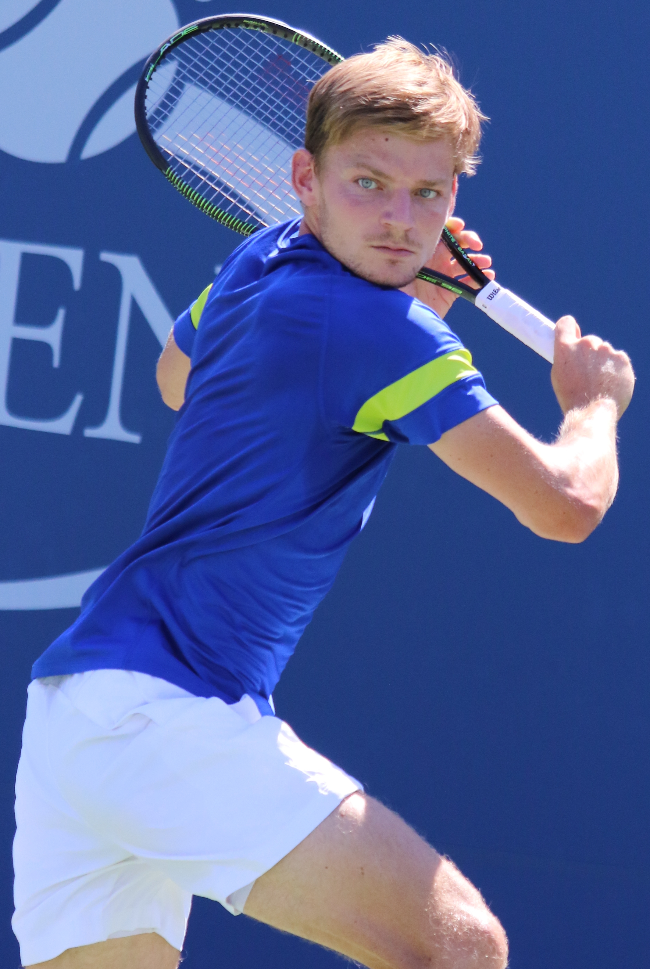 Goffin US16 (37)